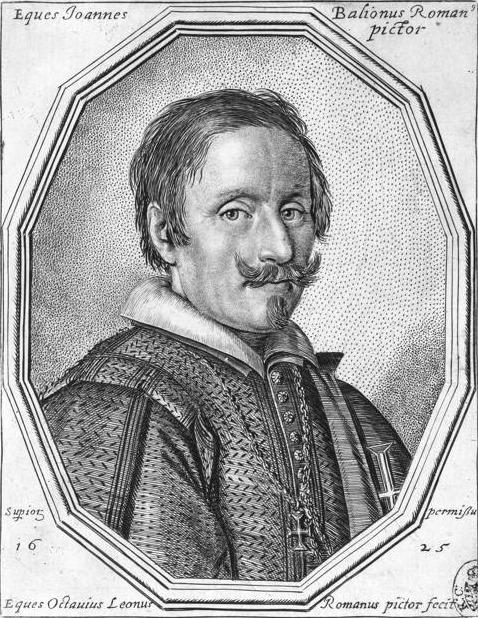 Painter Giovanni Baglione on a 1625 engraving-etching by Ottavio Leoni.